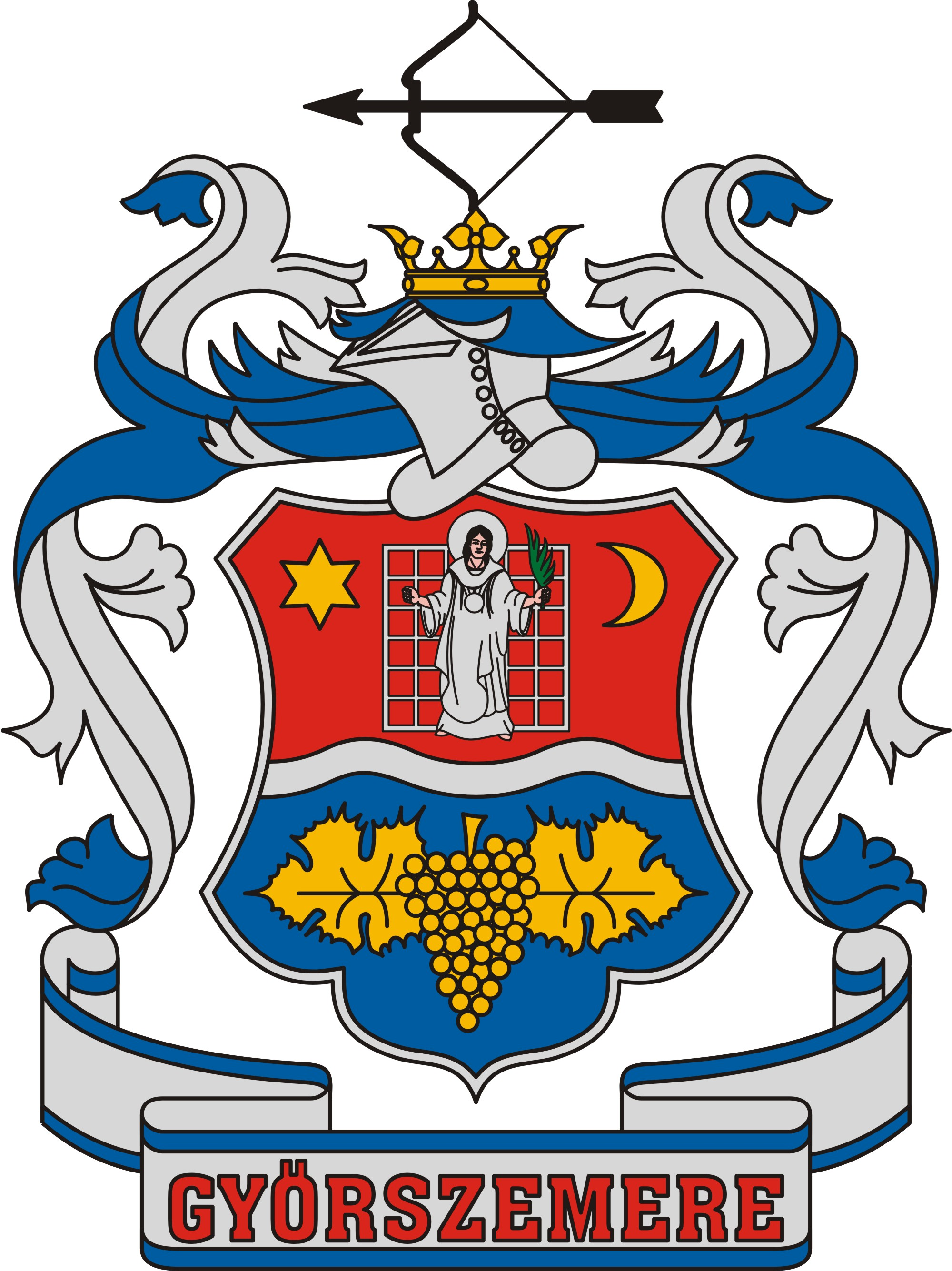 Coat of arms of Győrszemere, Hungary